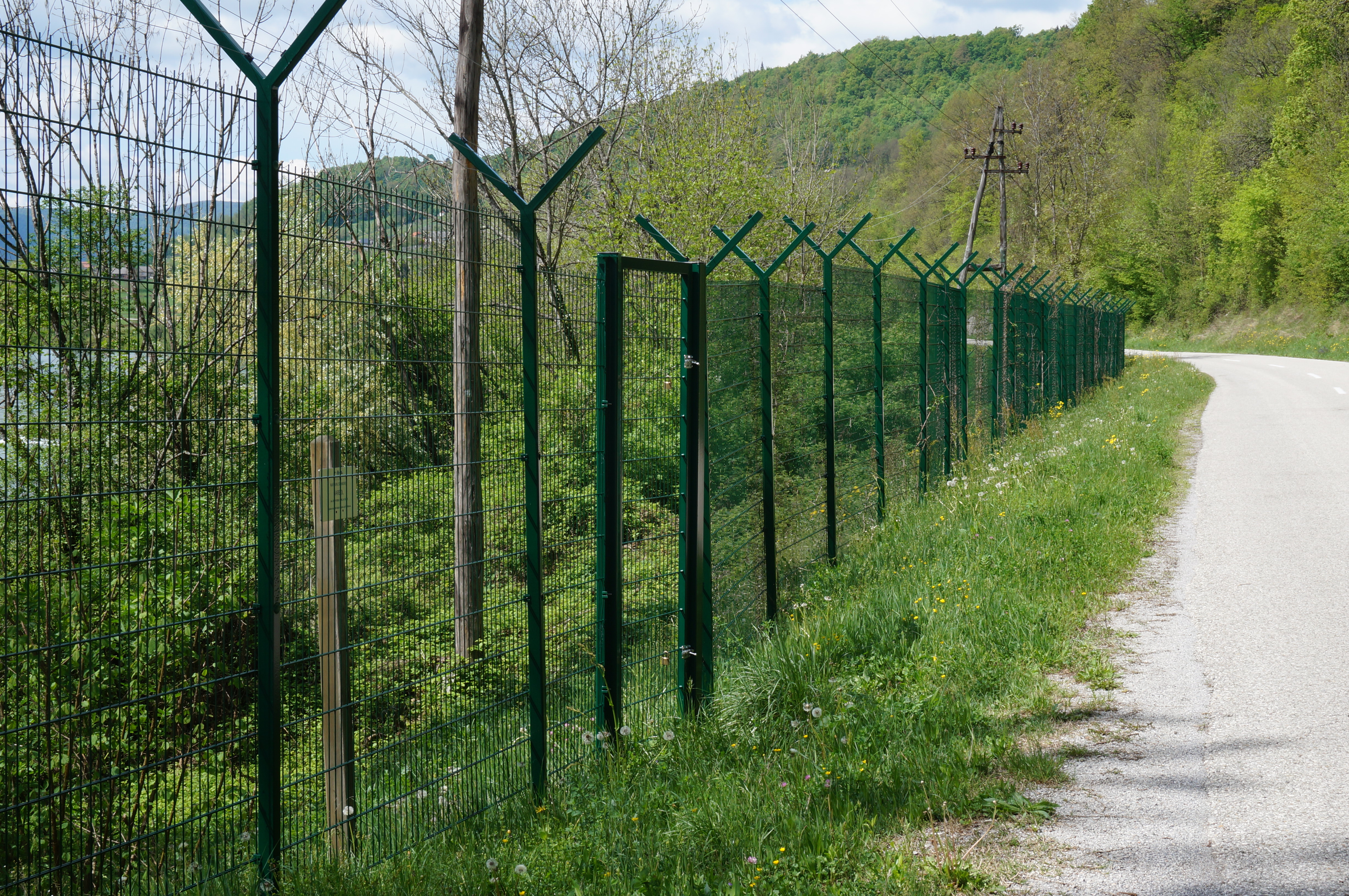 Slovenian border fence at the river Kolpa near Vinica in White Carniola (Bela Krajina)